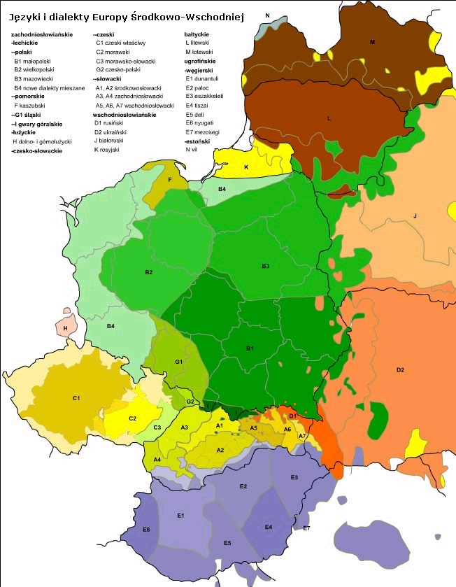 B1 - Lesser Polish B2 - Greater Polish B3 - Masovian B4 - New mixed dialects F - Kashubian G1 - Silesian H - Sorbian J - Belarusian K - Russian